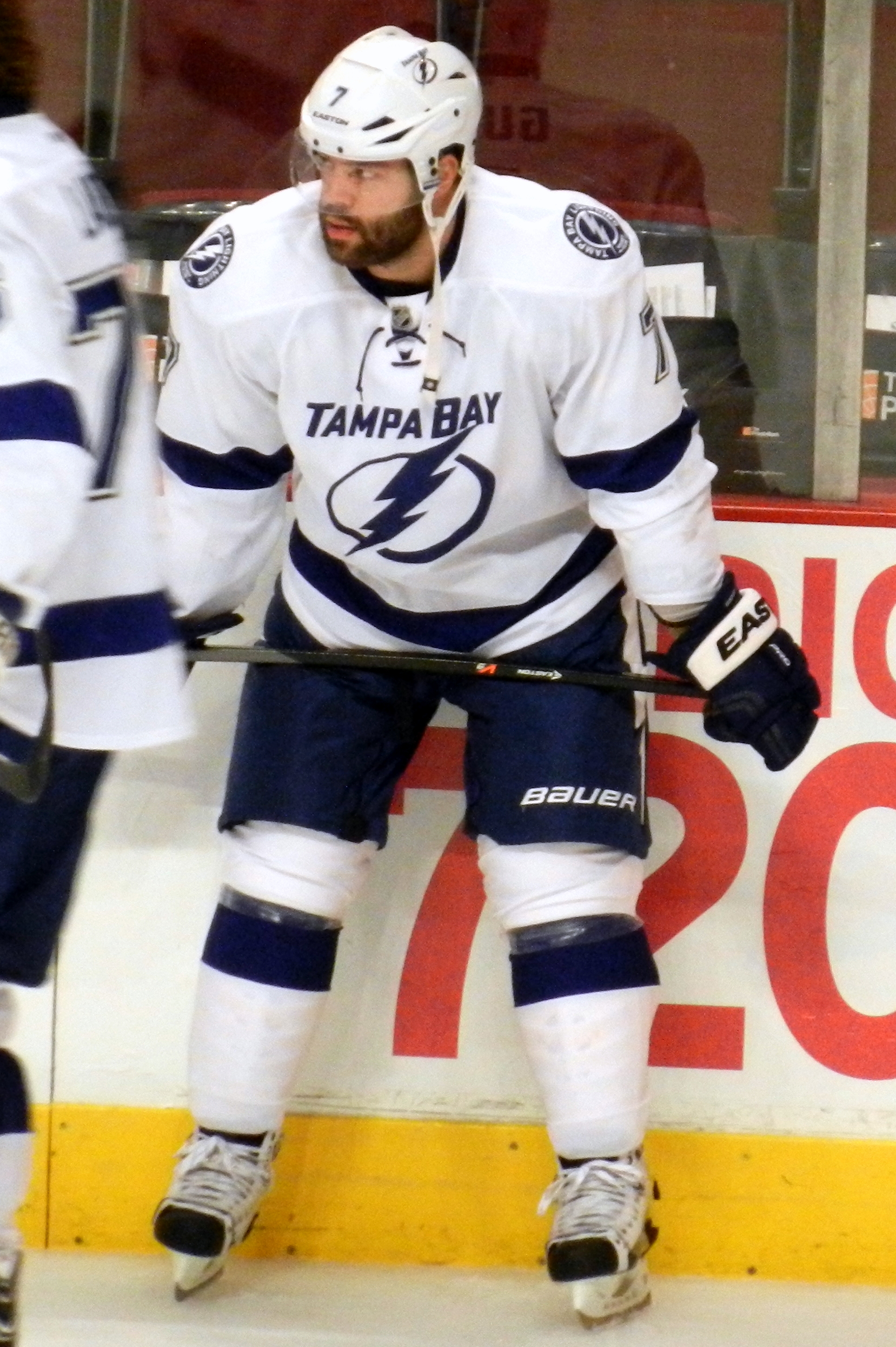 Radko Gudas with the Tampa Bay Lightning during warm-up before a gamve vs. the Blackhawks at the United Center in Chicago